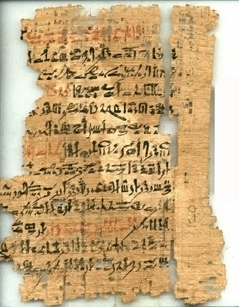 The beginning of the ancient Egyptian 'Loyalist teaching', a Middle-Kingdom text originally inscribed in stone, but later copied in hieratic script onto papyrus; this New-Kingdom era copy (c. 1550-1069 BC) is one example.